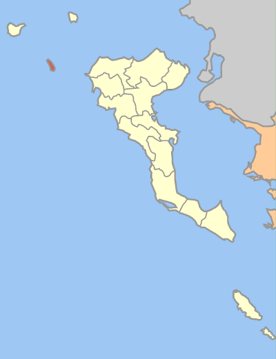 Locator map of Mathraki community (Κοινότητα Μαθρακίου) in Corfu prefecture (Νομός Κέρκυρας) in Greece.